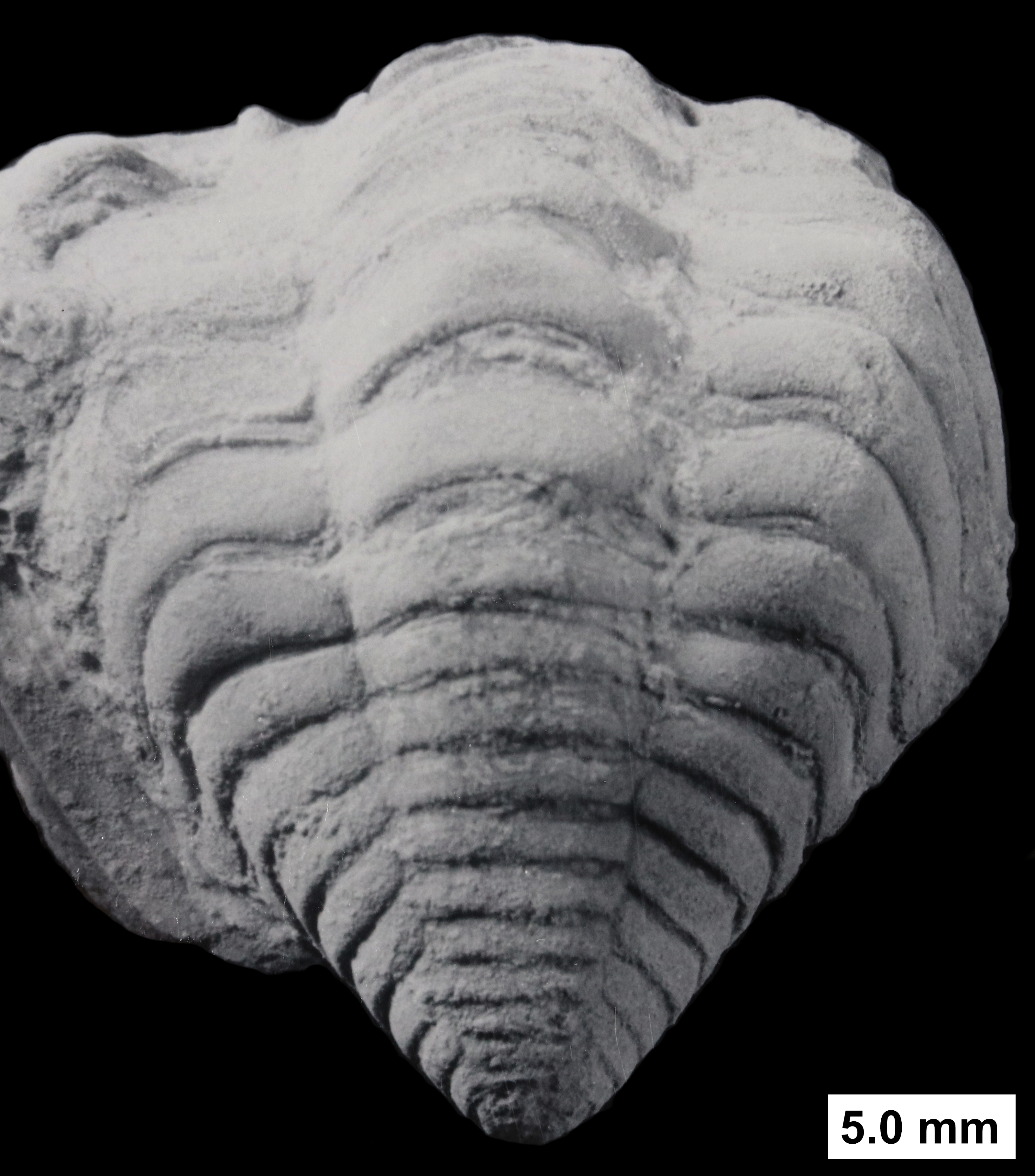 Frammia arctica (Salter, 1852); Upper Silurian; Read Bay Formation; Garnier Bay, Somerset Island, Canadian Arctic; pygidium and part of thorax; re-touched and modified from an original image taken by R.P. Tripp; Geological Survey of Canada 25064. The anterior view of the cephalon of this specimen was drawn by R.P. Tripp as Text-Fig 4B in R.P. Tripp, J.T. Temple, & K.C. Gass, 1977. The Silurian trilobite Encrinurus variolaris and allied species, with notes on Frammia. Palaeontology 20:4, 847-867.